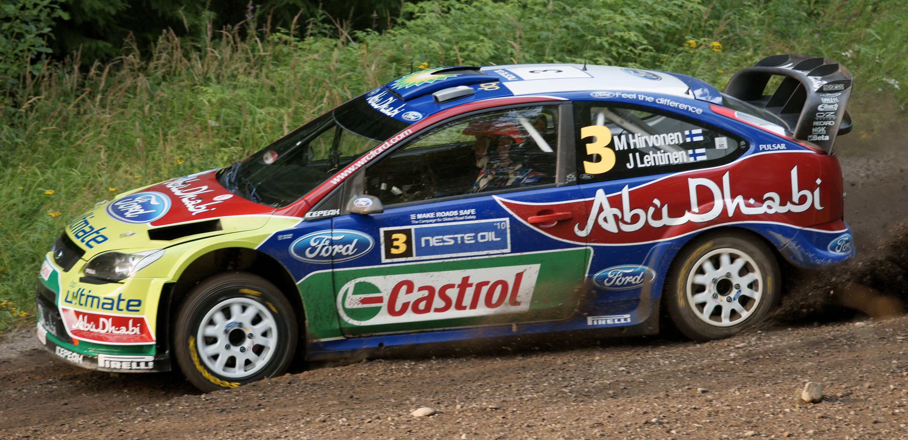 Mikko Hirvonen driving at Laajavuori special stage, Rally Finland 2010.